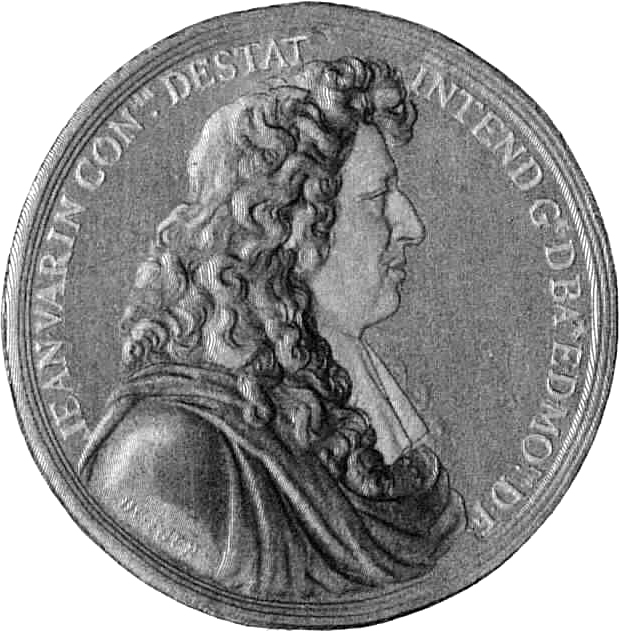 Portrait of French engraver Jean Varin (1604-1672)